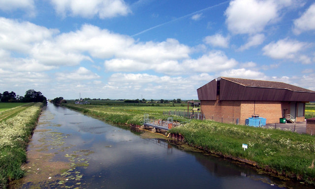 The New River Ancholme Photo taken from Cadney Bridge looking North. The building on the right is the Anglian Water Intake.